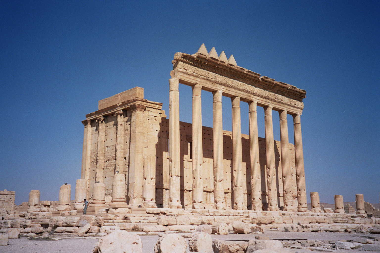 this is the central structure in the temple complex